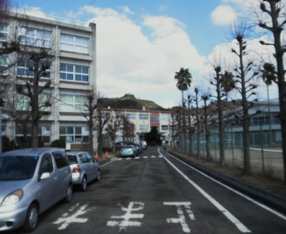 Komatsushimanishi High School